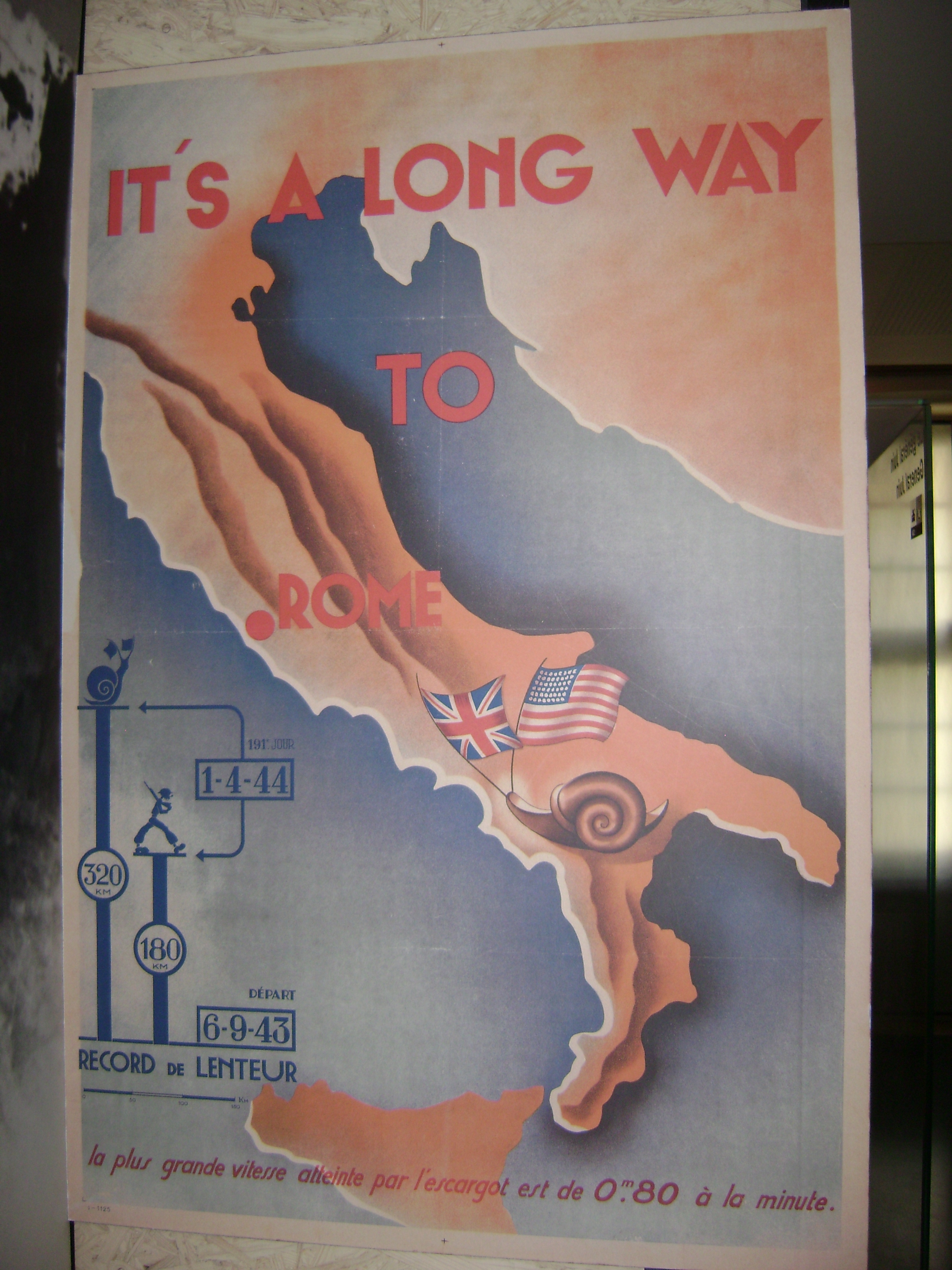 Nazi propaganda poster during the occupation of France. "It's a long way to Rome." Comparing the speed of the advancing Allies with a snail.